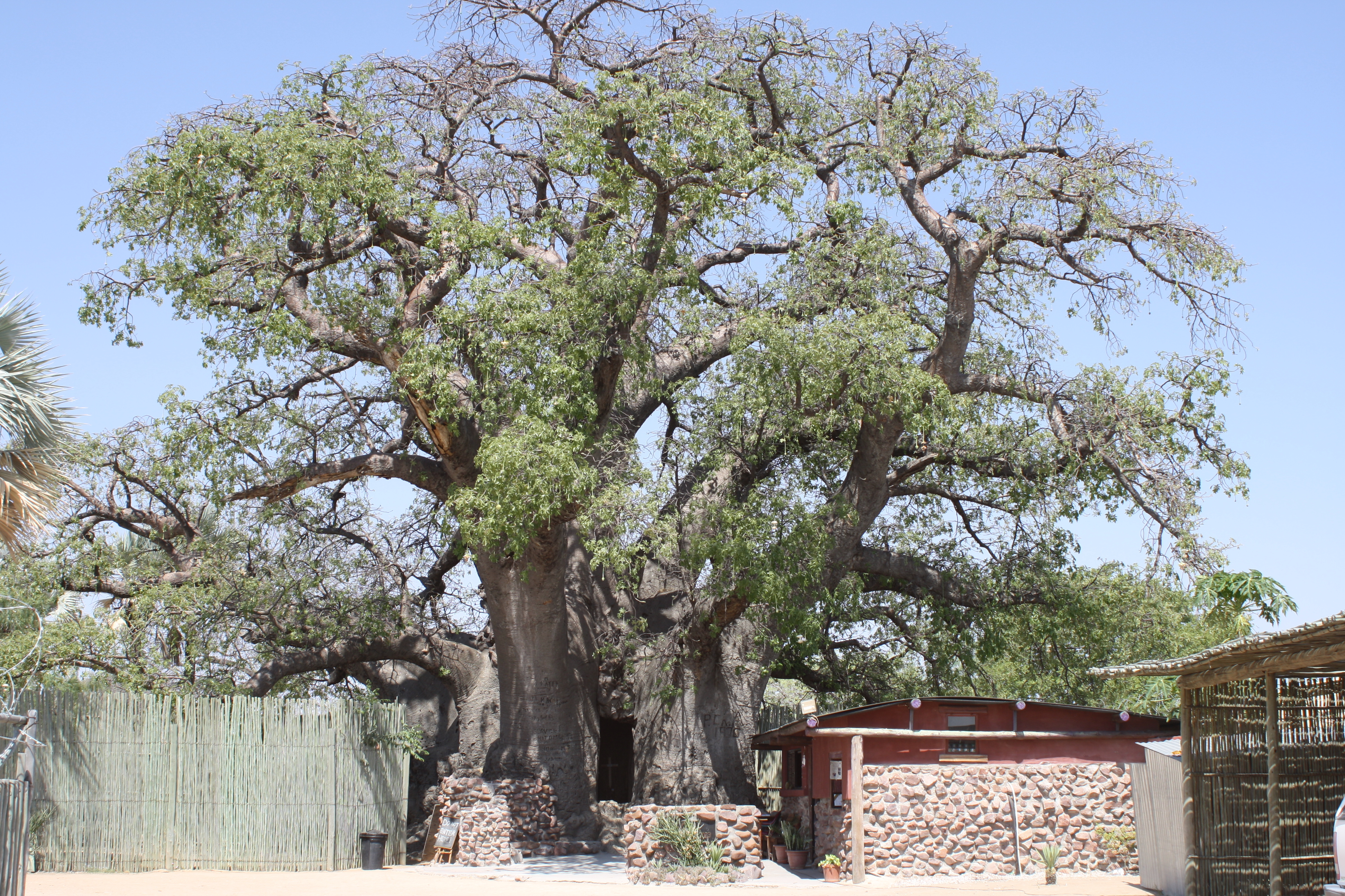 The Ombalantu Baobab tree, an Adansonia species, in Outapi, Omusati, Namibia.